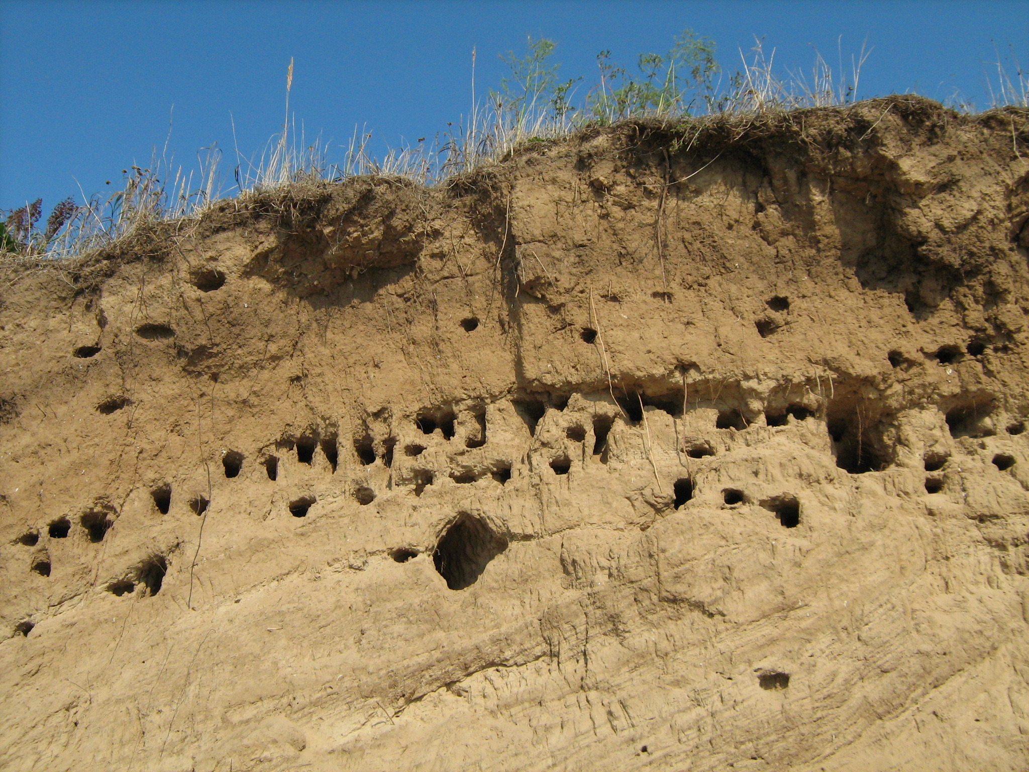 Nests of Sand Martins on the Volga shore, north-west of the Kstovo City Beach